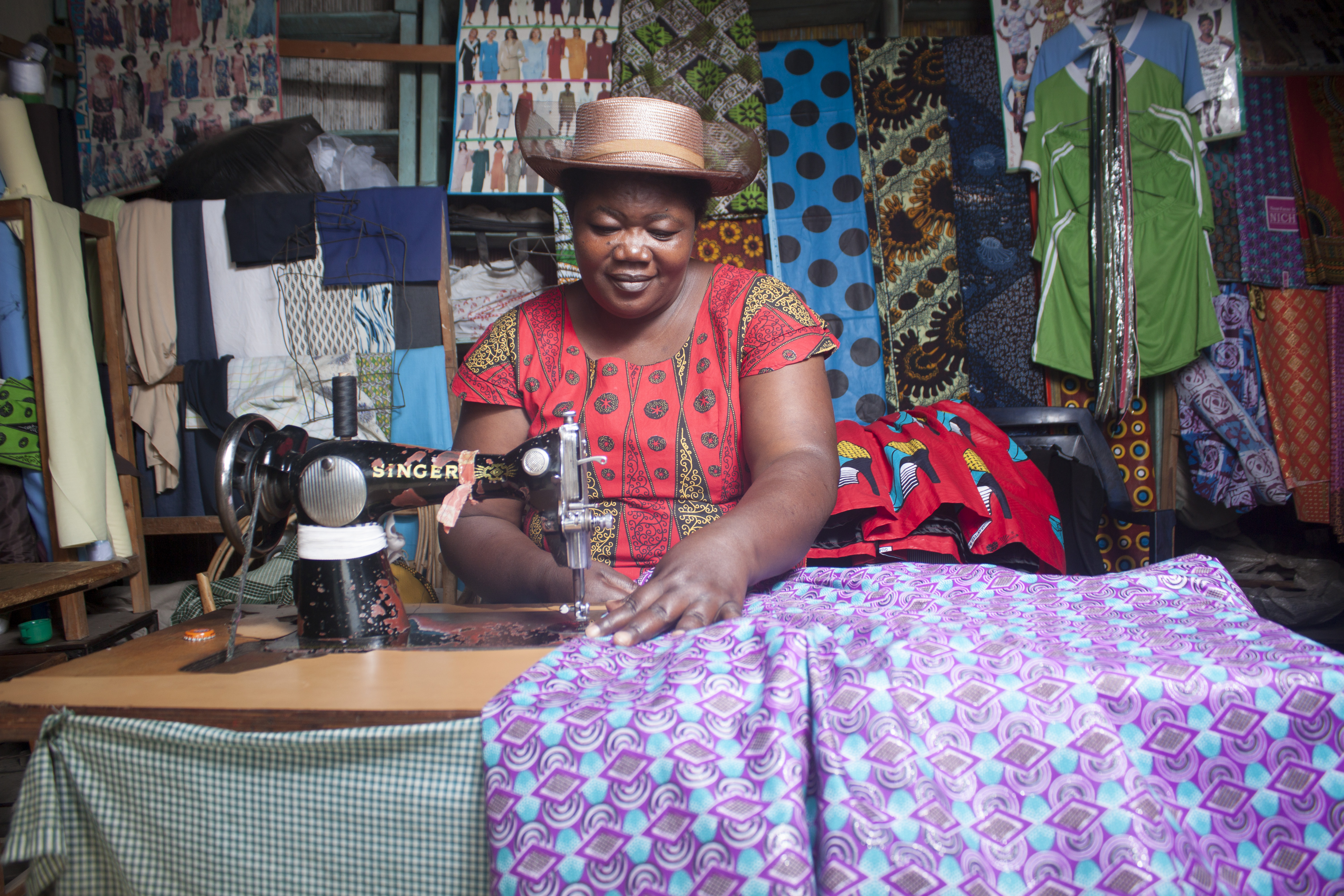 Woman working in a tailor shop at a place called Pap-O-Nditi in South Nyanza, South west part of Kenya This is an image of "African people at work" from Kenya